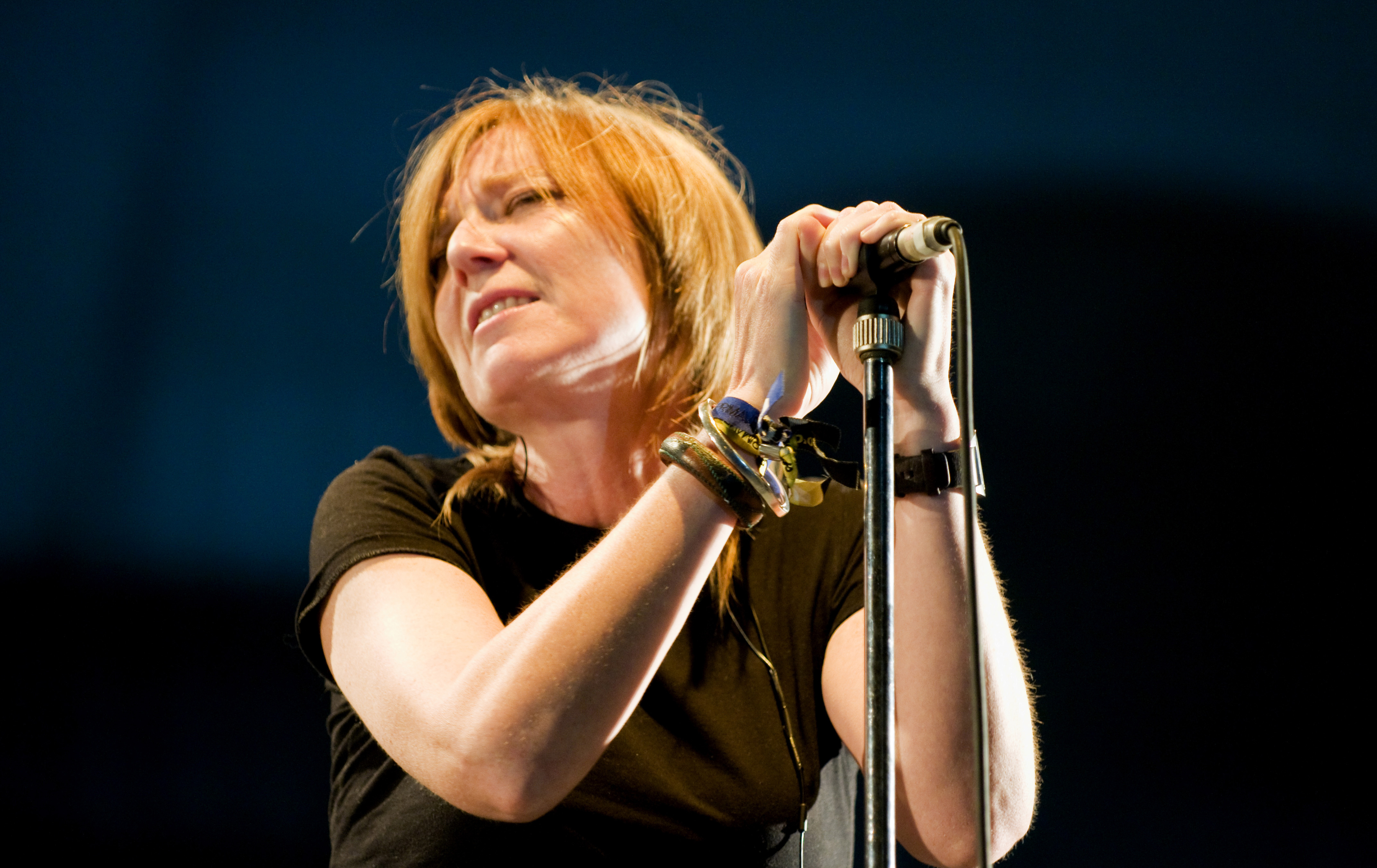 Beth Gibbons, singer from Portishead. Performing a live concert in the Primavera Sound 2008, Barcelona, May 2008.